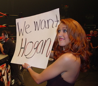 So Cal Val showing off a planted sign at recent TNA Impact taping. Photo by Rob Beukema